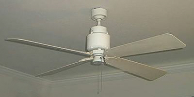 The Emerson "Heat Fan", one of the first fans to use a stack motor. Taken by user Goldrushcavi -Goldrushcavi 06:26, 15 April 2007 (UTC)